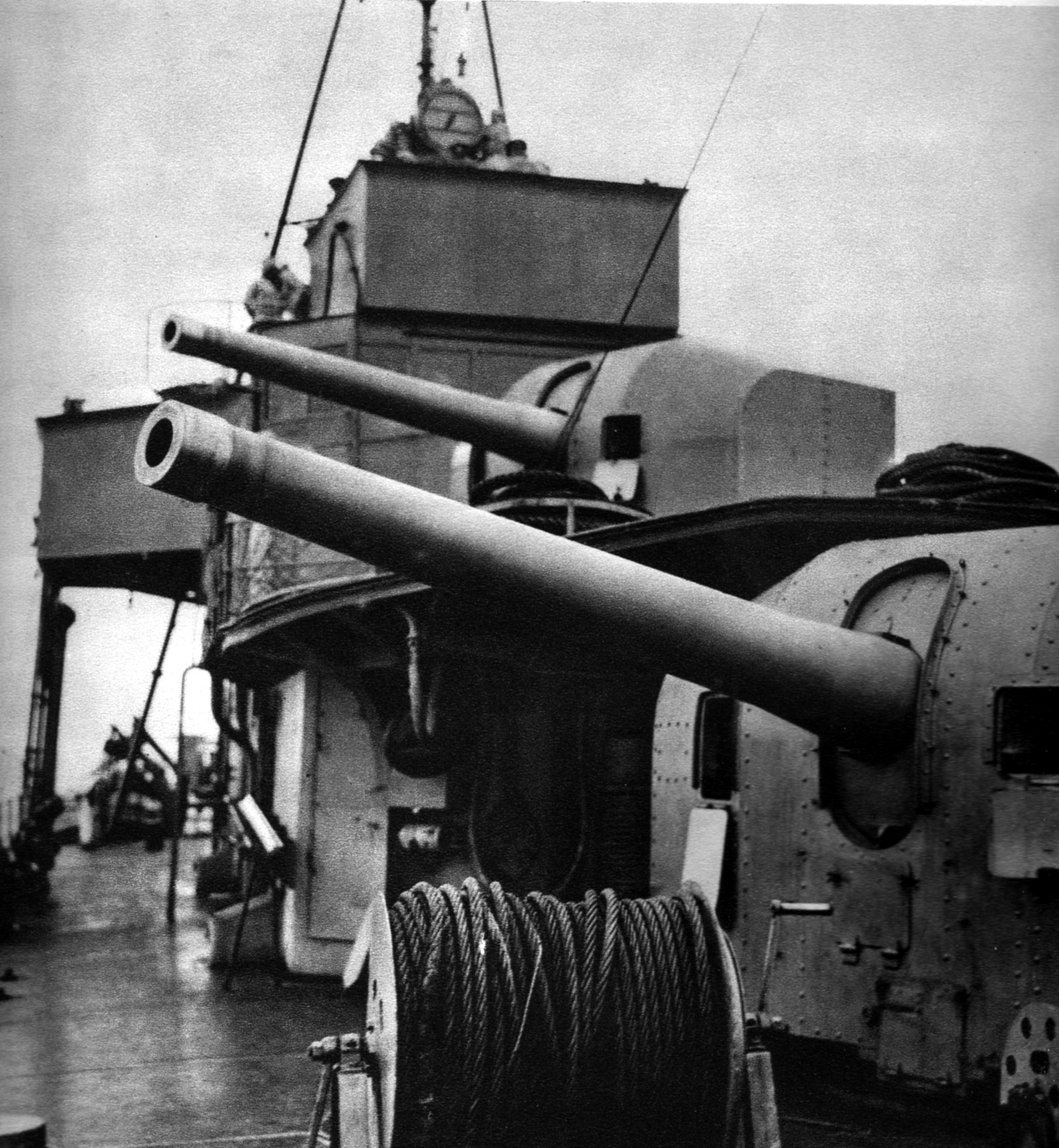 Main guns of the Polish Destroyer ORP Wicher (sunk 3rd of September 1939)